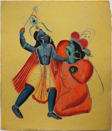 Kalighat Krishna killing Kansa